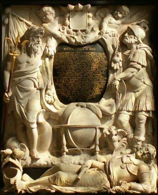 The grave memorial (made by Pieter Rijcx) of Admiral Witte de With, prominently showing the globe he sailed around